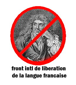 French Language Liberation Front